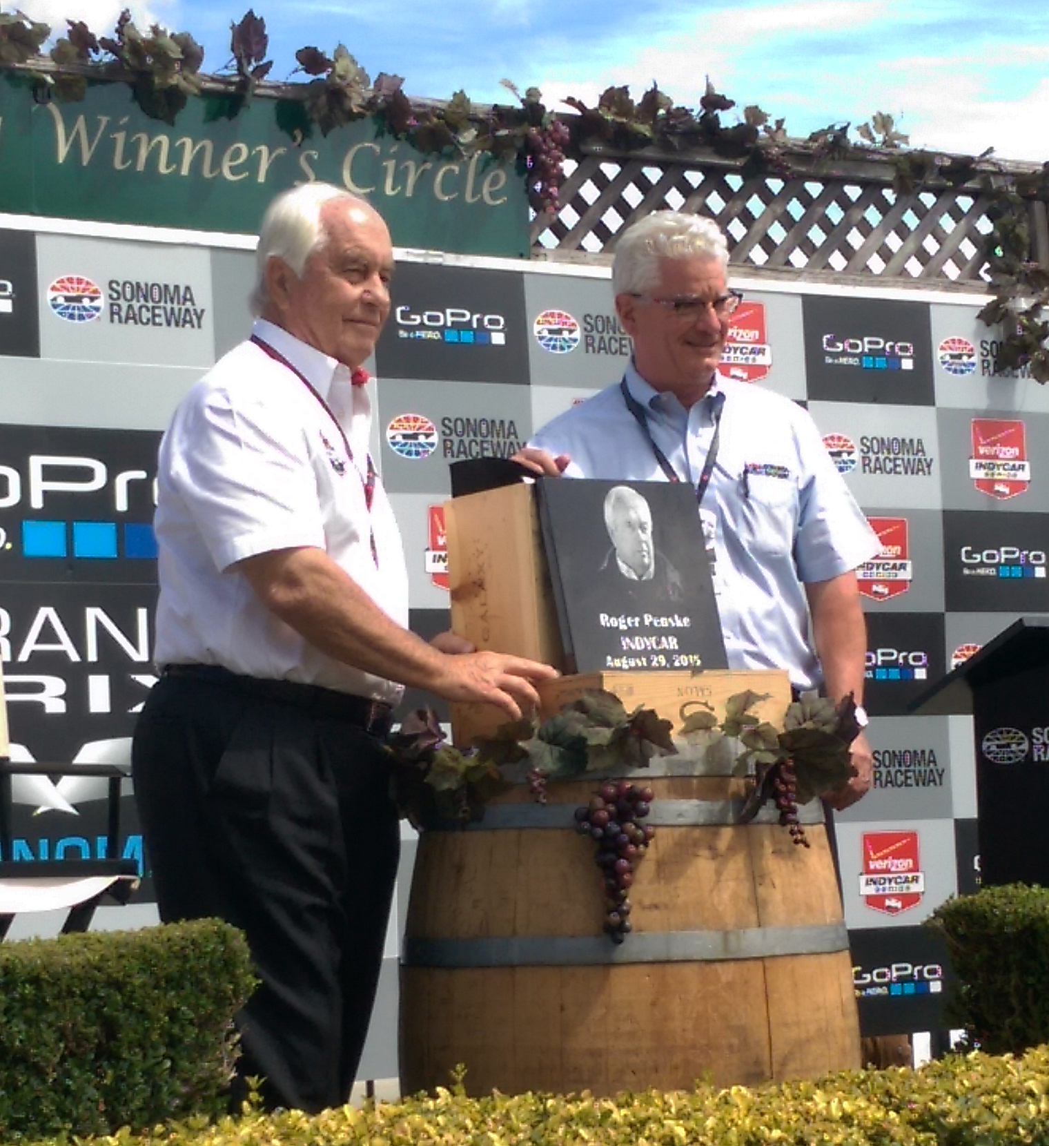 Roger Penske is inaugurated into the Sonoma Raceway Wall of Fame in 2015